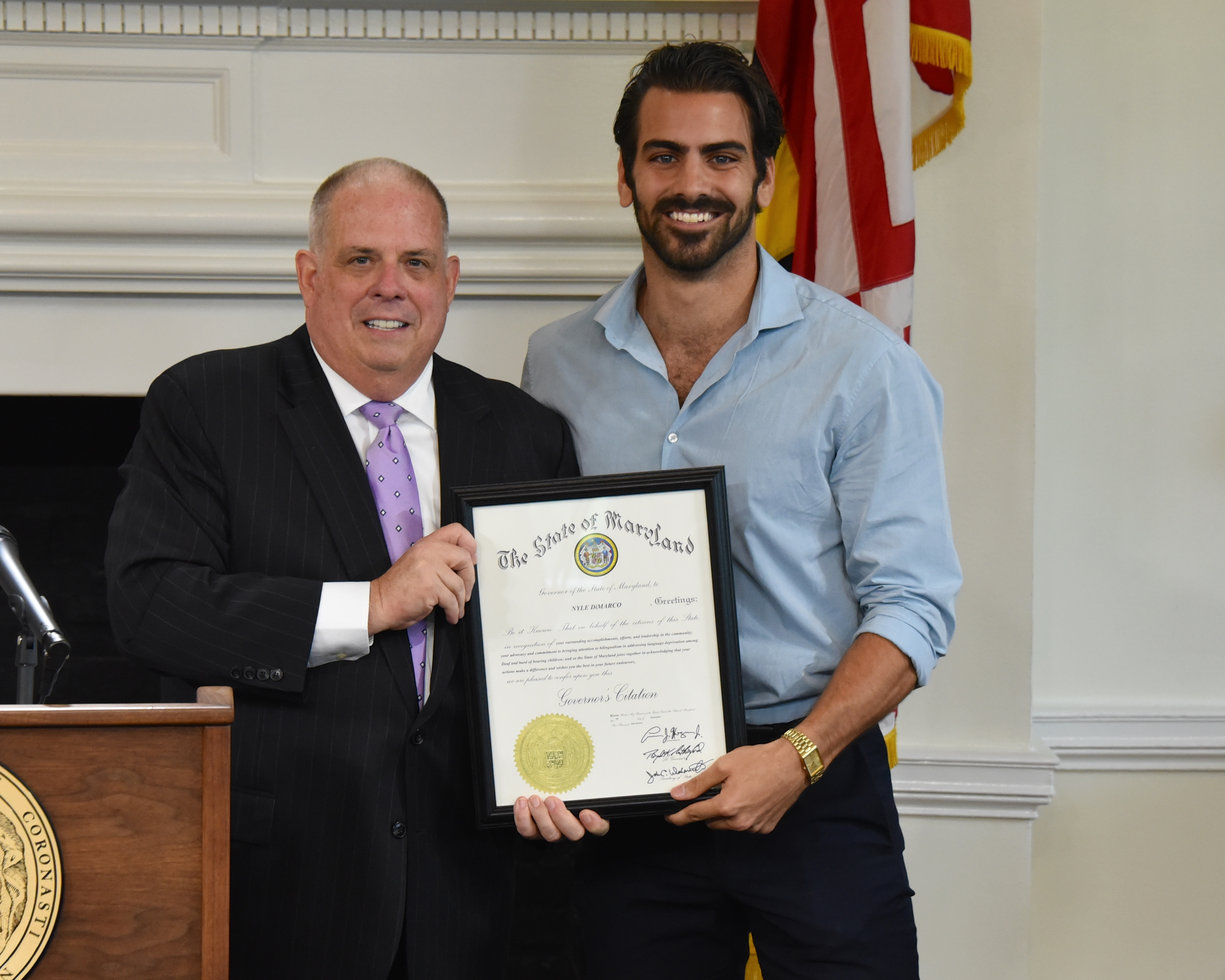 Governor Hogan Presents Citation to Nyle DiMarco by Joe Andrucyk at Maryland State House, 100 State Circle, Governor’s Reception Room